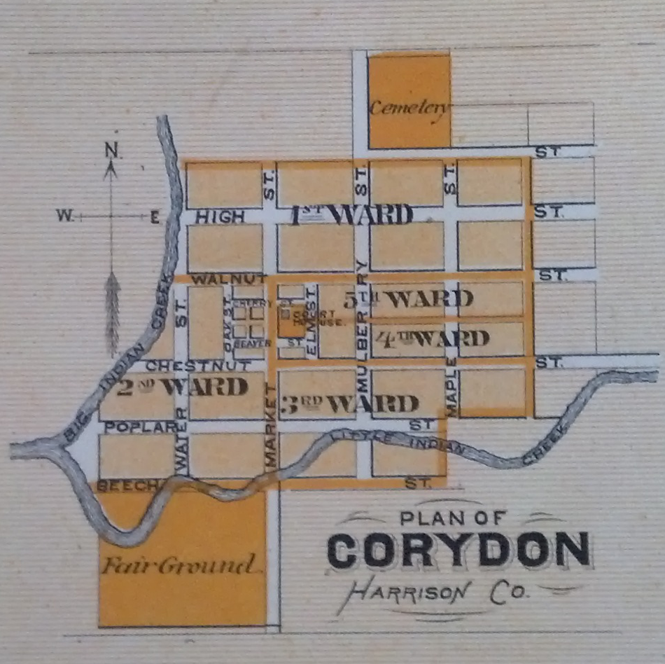 A map of the town of Corydon, the former capital of the state of Indiana